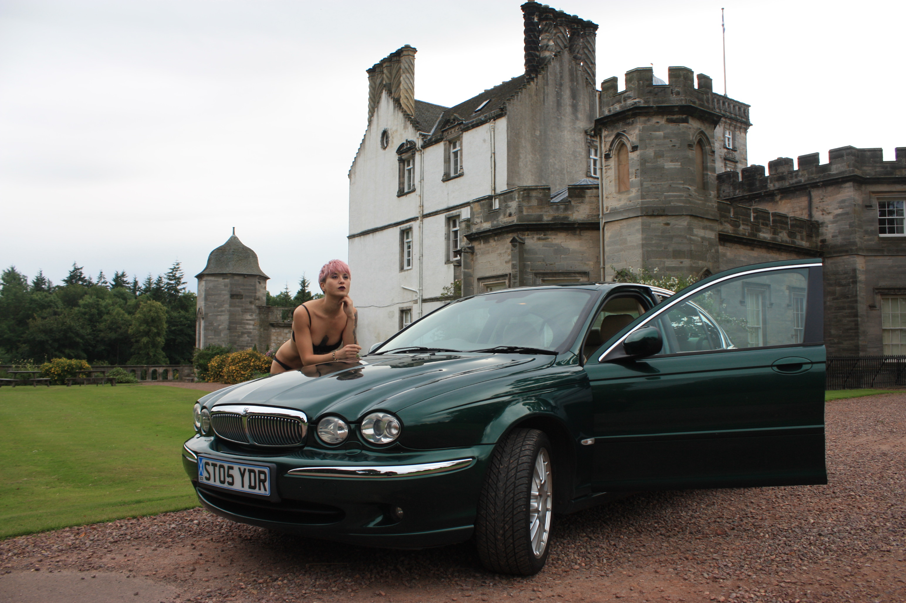 X-type Jaguar in British Racing Green, model Casini